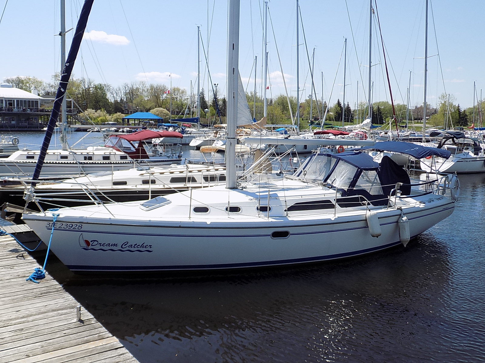 A Catalina 34 Mark II sailboat named Dream Catcher.